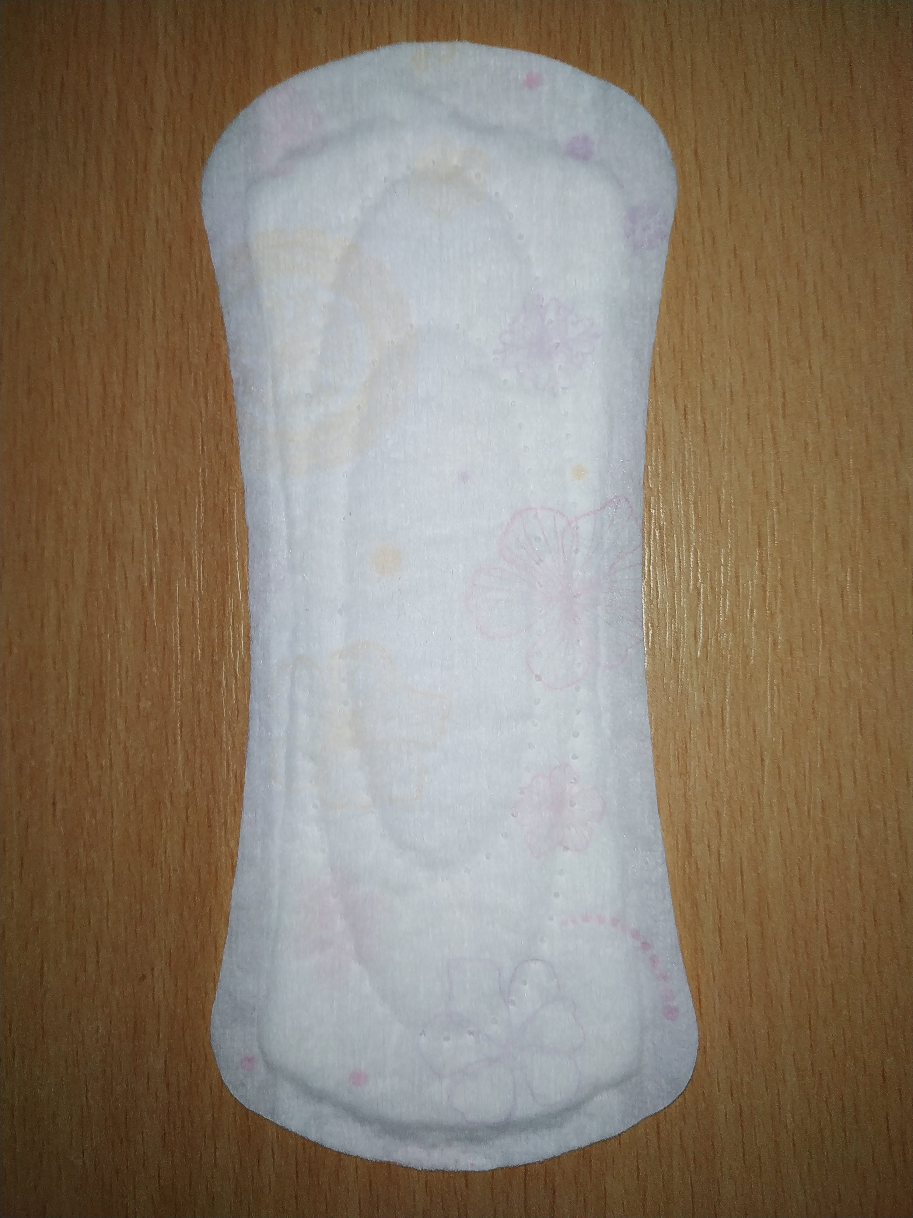 kotex